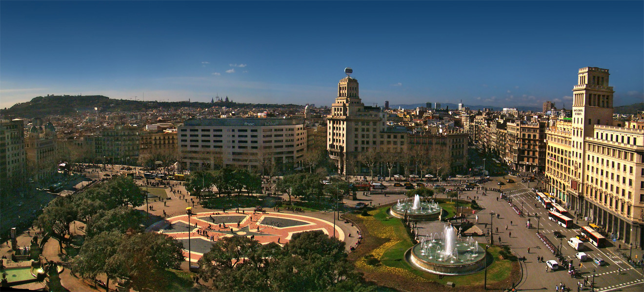 Plaça Catalunya, Barcelona, Catalonia, Spain. Panorama seen westward. In the background on the left, Montjuïc with the Olympic installations.